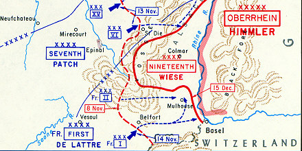 Extract from URL: Full image is work of a U.S. Government agency.